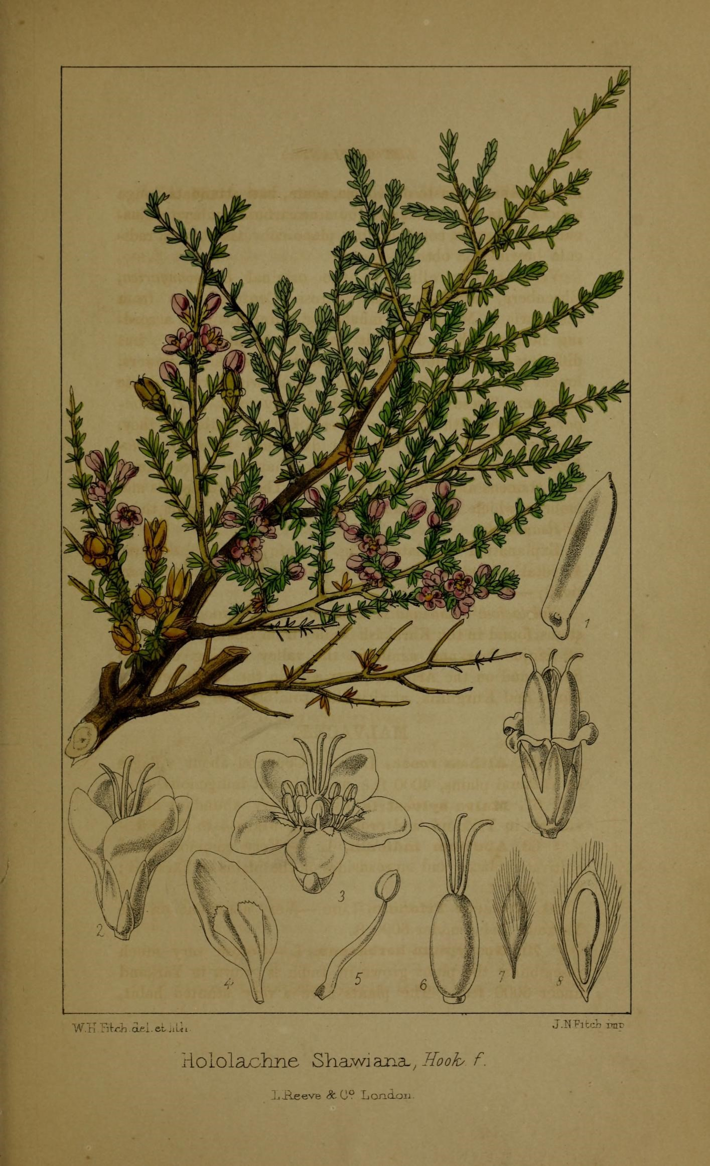 iololaxT'hne ^^lajNi^jcid^^Kooh f. . , Reeve .fc C" L ondoii .